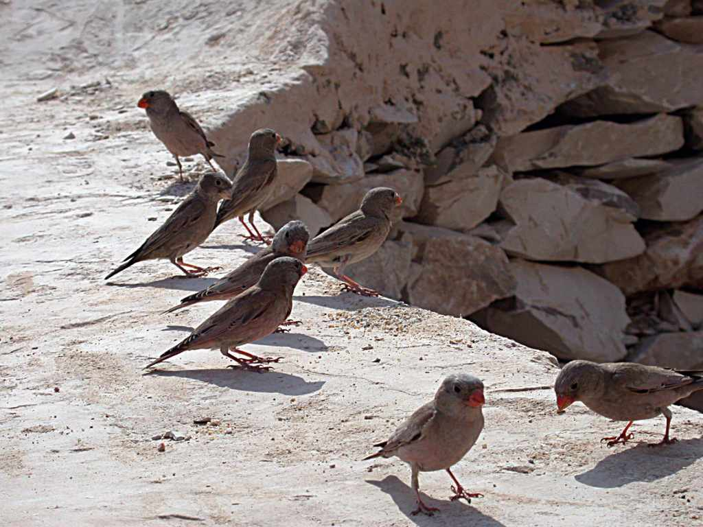 Trumpeter Finches (Bucanetes githagineus), Valley of the kings, Egypt.